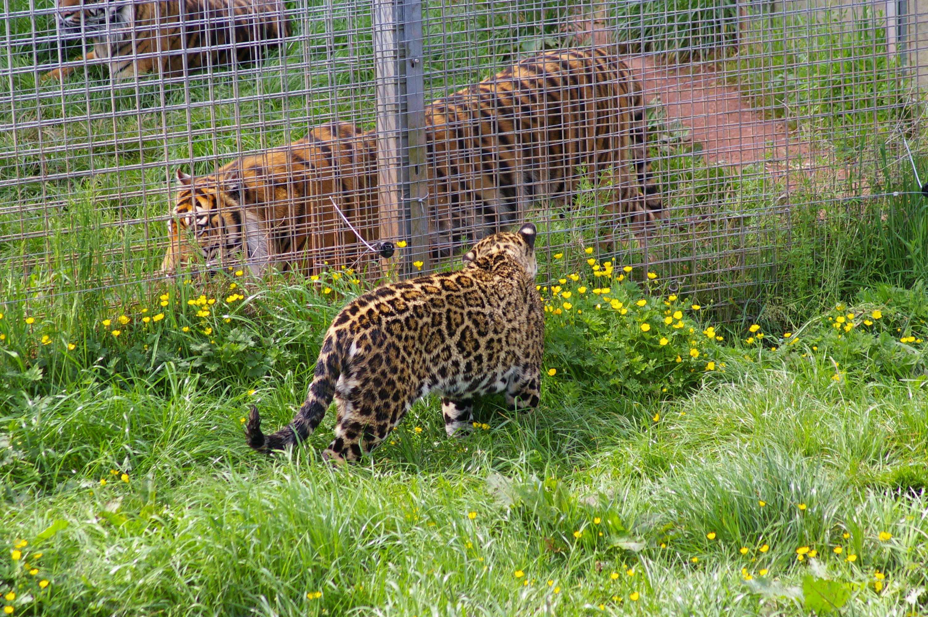 A jaguar and tiger photographed at South Lakes Safari Zoo, Cumbria, England.